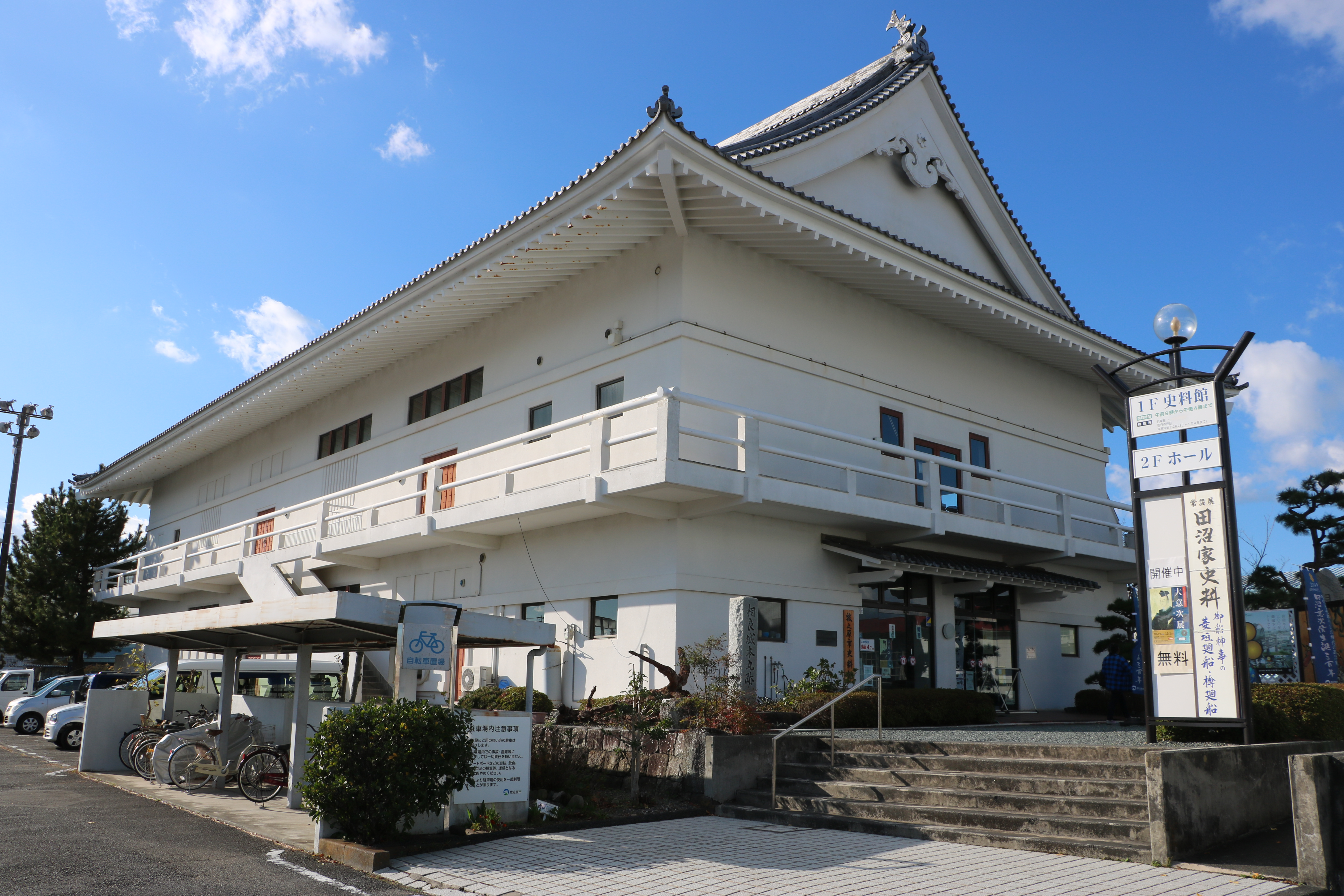 Makinohara City Historical Museum